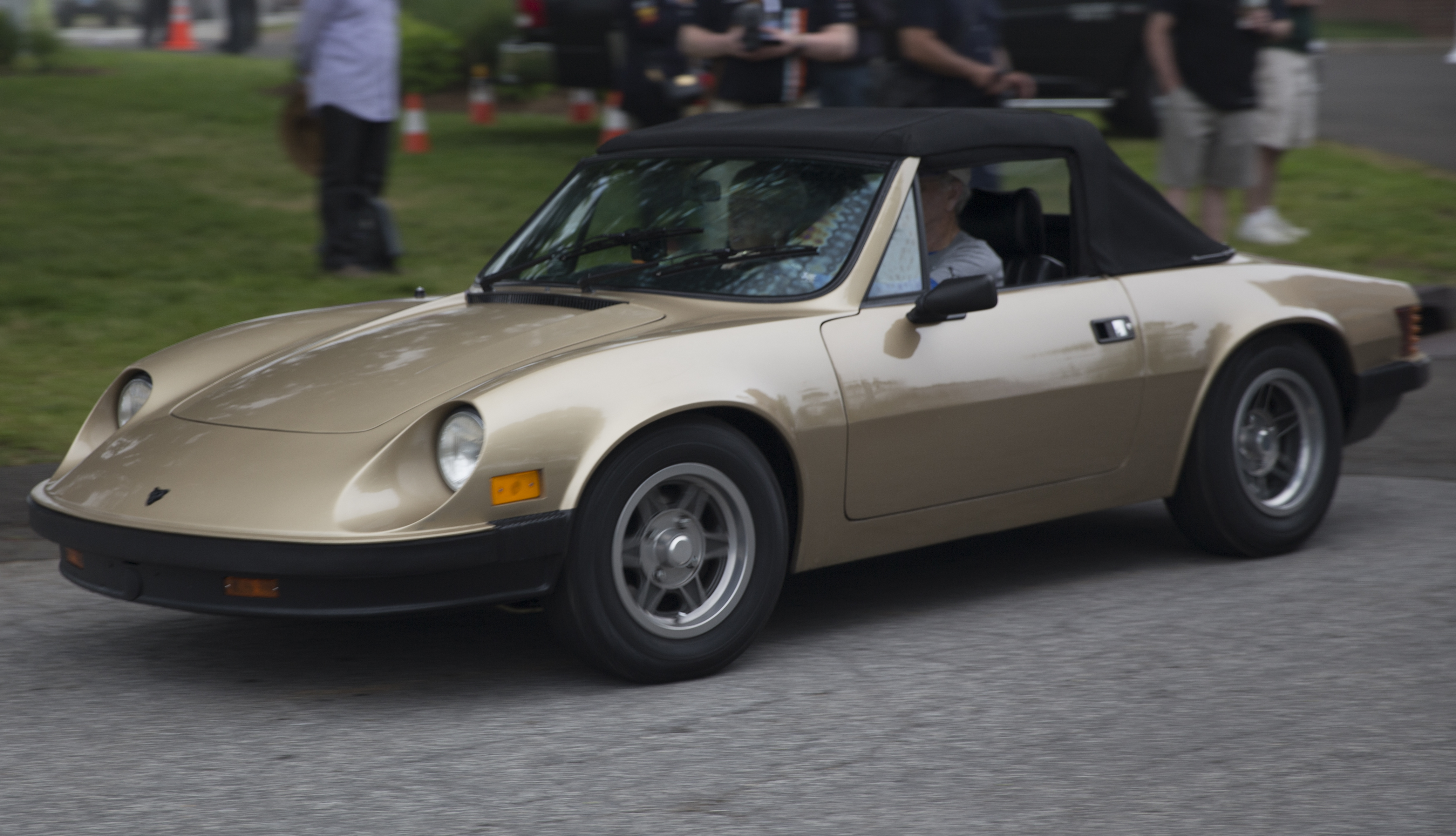 1983 Puma GTC entering the 2019 Greenwich Concours d'Elegance. One of my favs; it belongs to two very pleasant guys who also have a Kyalami and a Longchamp - color me envious!